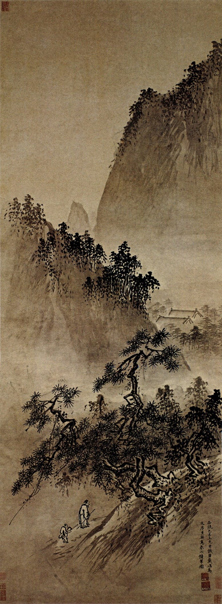 Dense Green Covering the Spring Mountains, hanging scroll, ink on paper, 141 x 53.4 cm. Located at the Shanghai Museum.